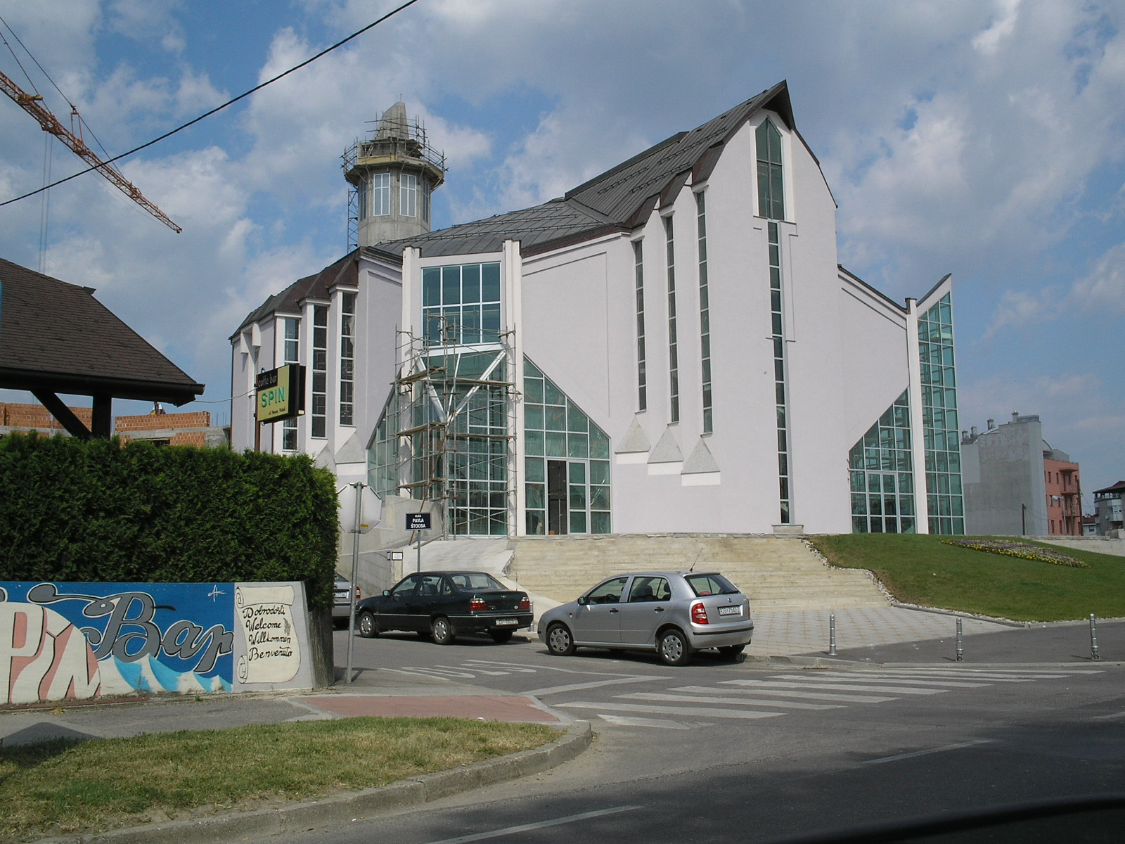 A church in Zapresic